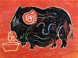 Lợn độc (Pig), an example of Kim Hoang painting. The author was unknown because it is a traditional genre of painting dated back to the 18th century.